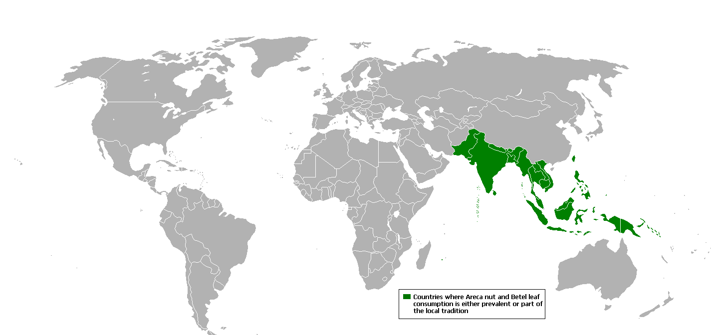 own work